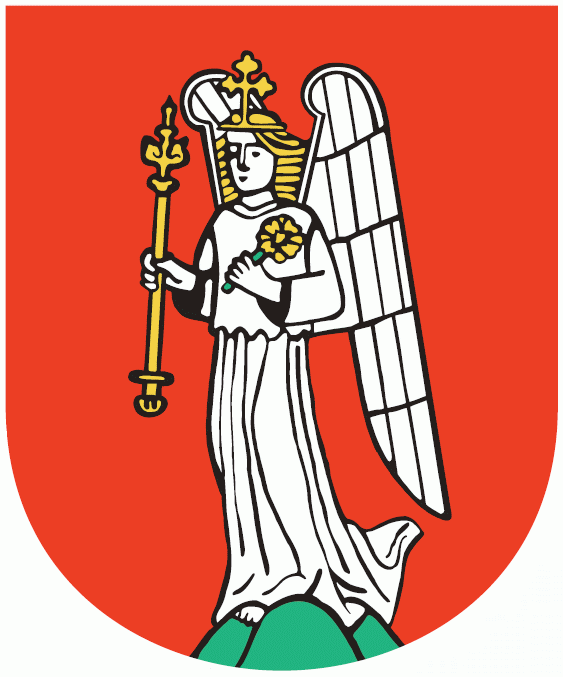 Coat of arms of the municipalitie of Engelberg (Switzerland)